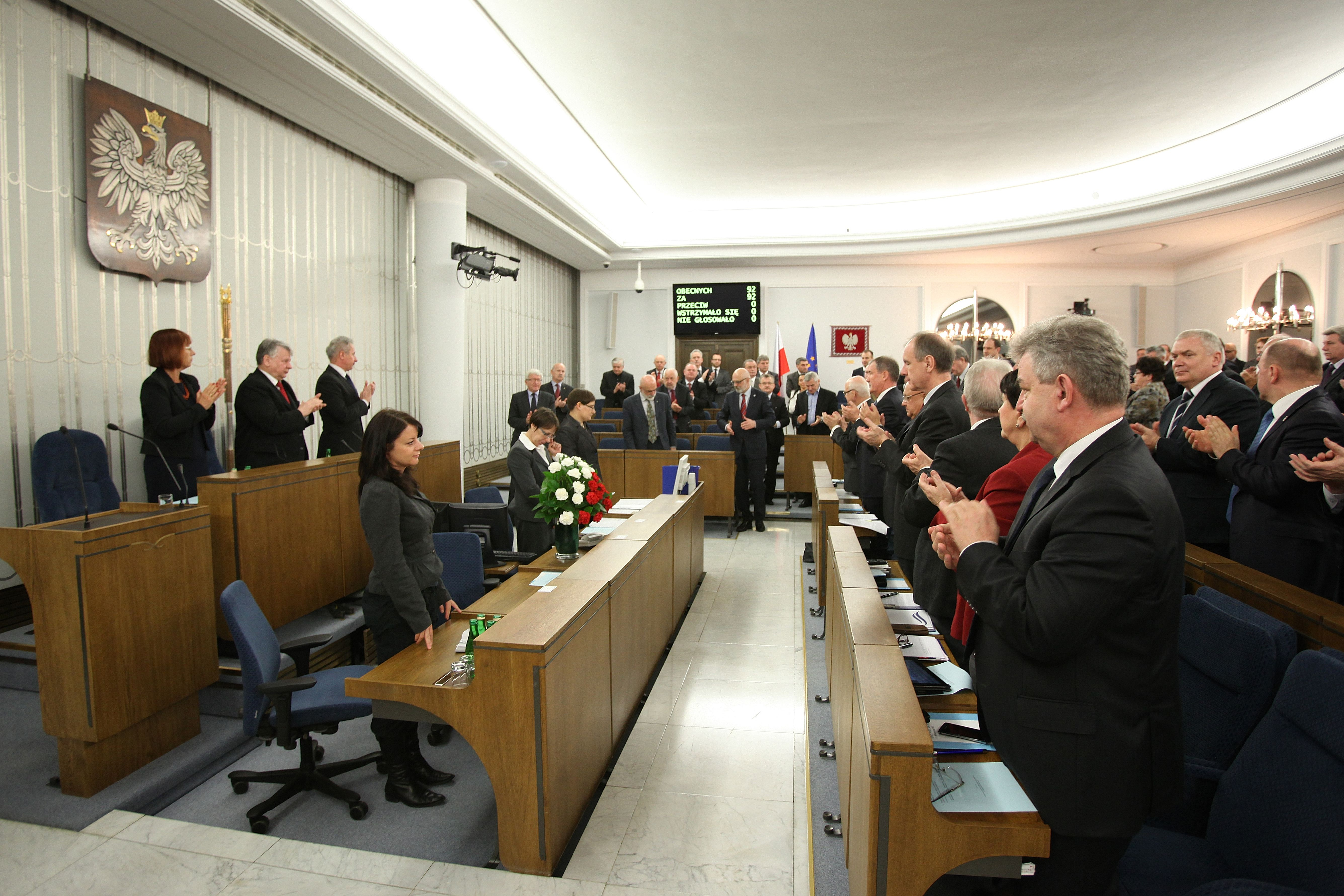 31st sitting of the Senate of Poland. After passing the Senate's resolution on the 70th anniversary of the Warsaw Ghetto Uprising